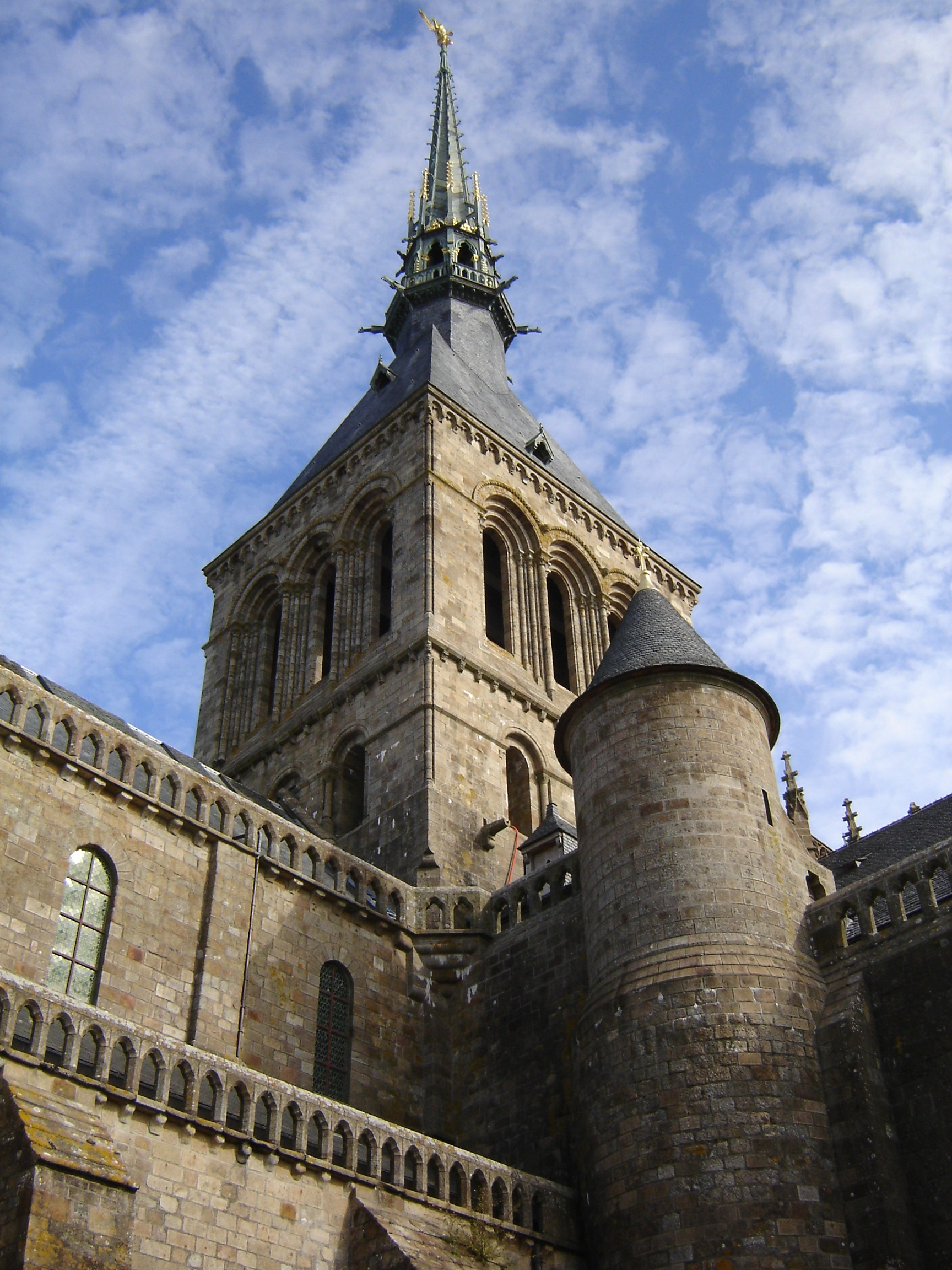 Spire of the abbey on Mont Saint-Michel in Normandy France